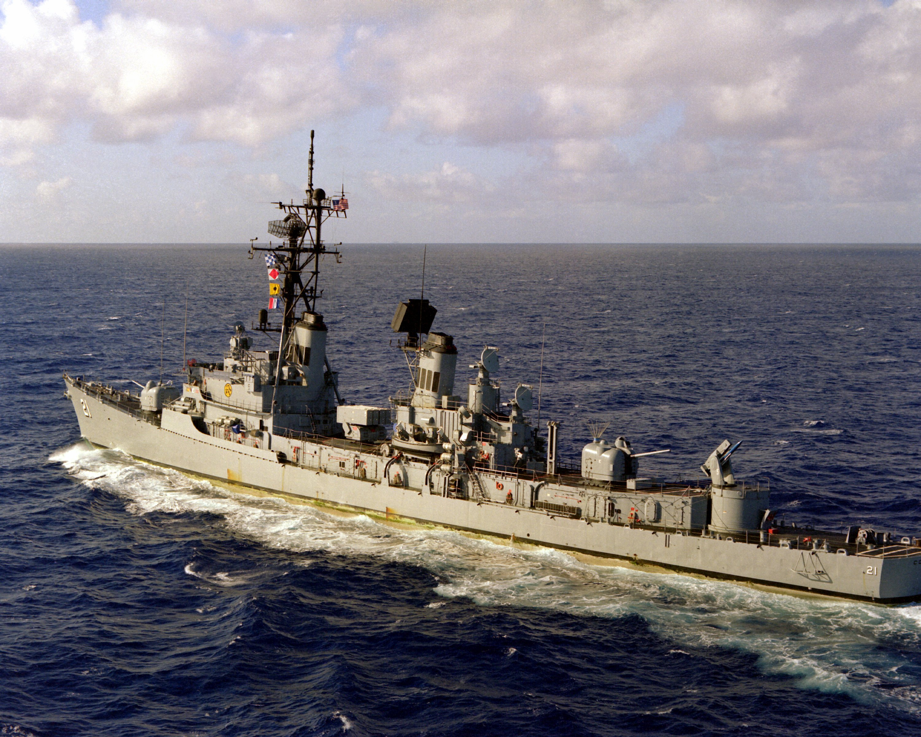 The U.S. Navy guided missile destroyer USS Cochrane (DDG-21) underway in the Pacific Ocean on 29 May 1981.